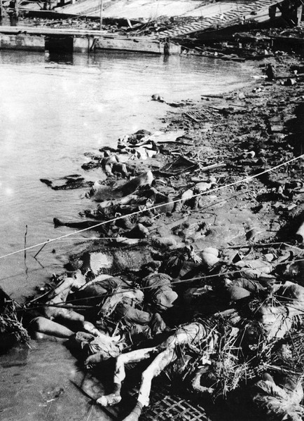 Murase Moriyasa was then serving in the 17th motor transport company of the supply regiment as a private second class. He took this photo near the Xiaguan wharf of Nanking. It shows piles of bodies of Chinese laying along the shore of Yangtze River. Most of the dead were civilians. Japanese soldiers burnt these bodies to mop up their crimes.